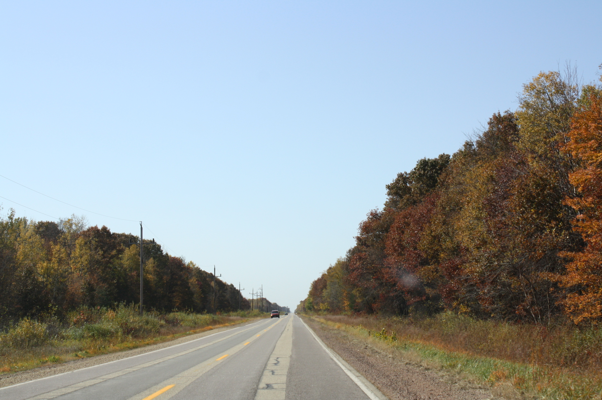 The Necedah National Wildlife Refuge forest on Wisconsin Highway 173.